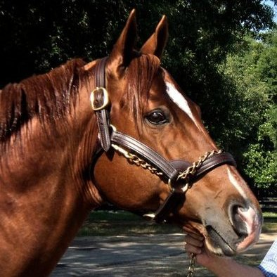 Sire Leroidesanimaux at Stonewall Farm in Ocala, FL.